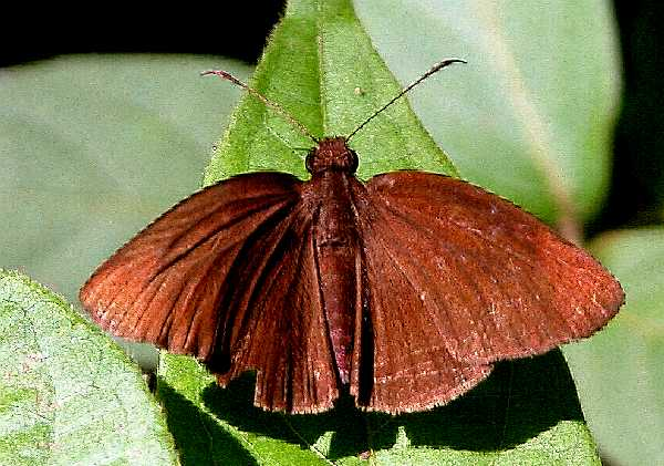 Coon Psolos fuligo at Shendurney WLS, Kerala, India